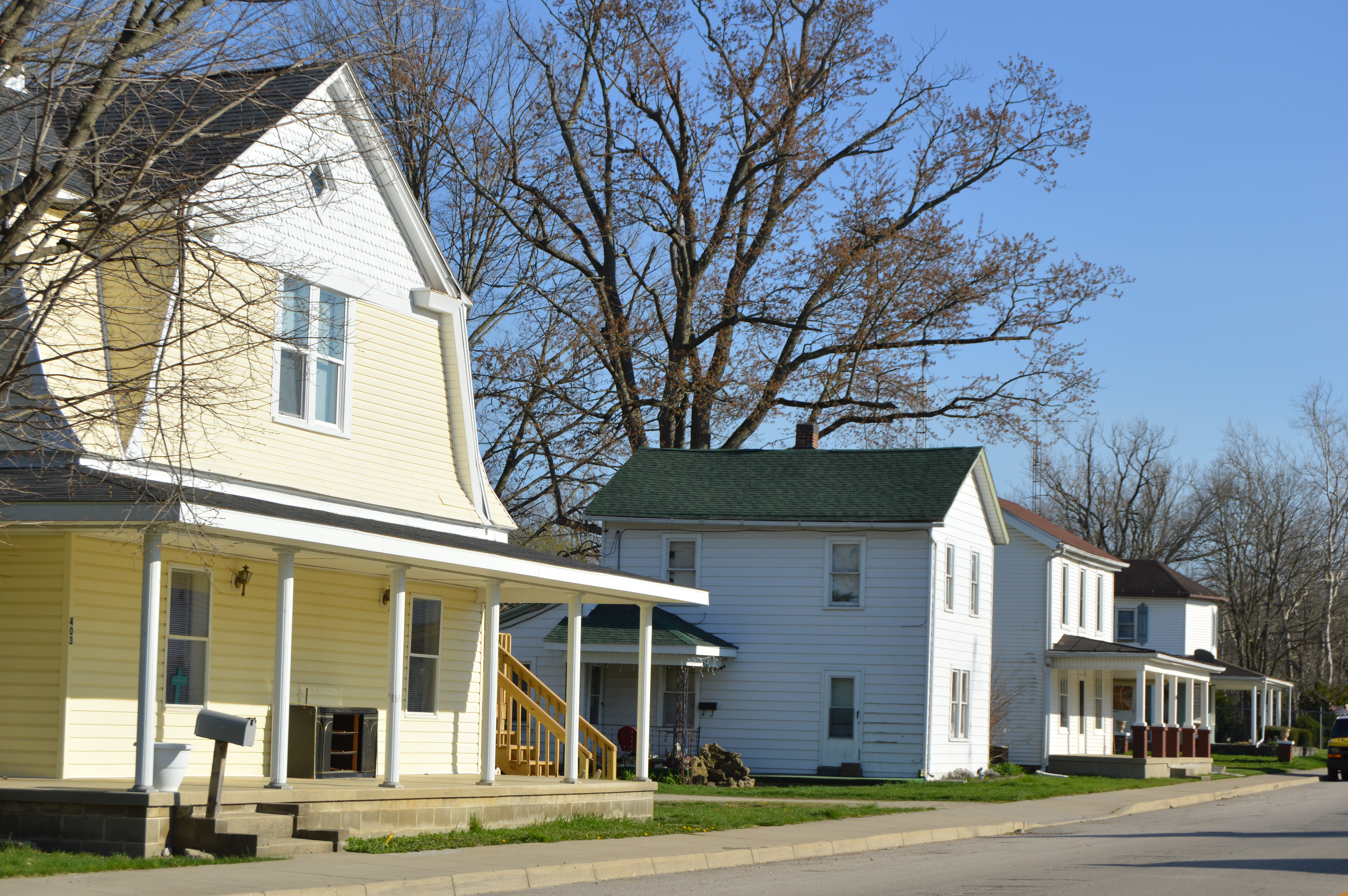 Houses on the eastern side of Washington Street (State Route 320) south of Wrenn Avenue in New Paris, Ohio, United States.